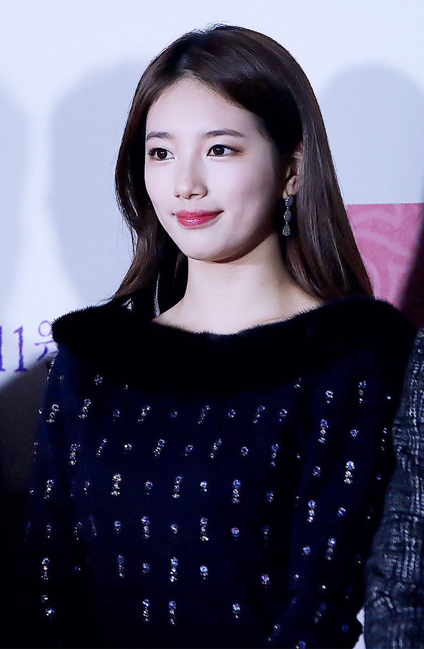 Bae Suzy at the Premier for The Sound Of A Flower, 23 Nov. 2015